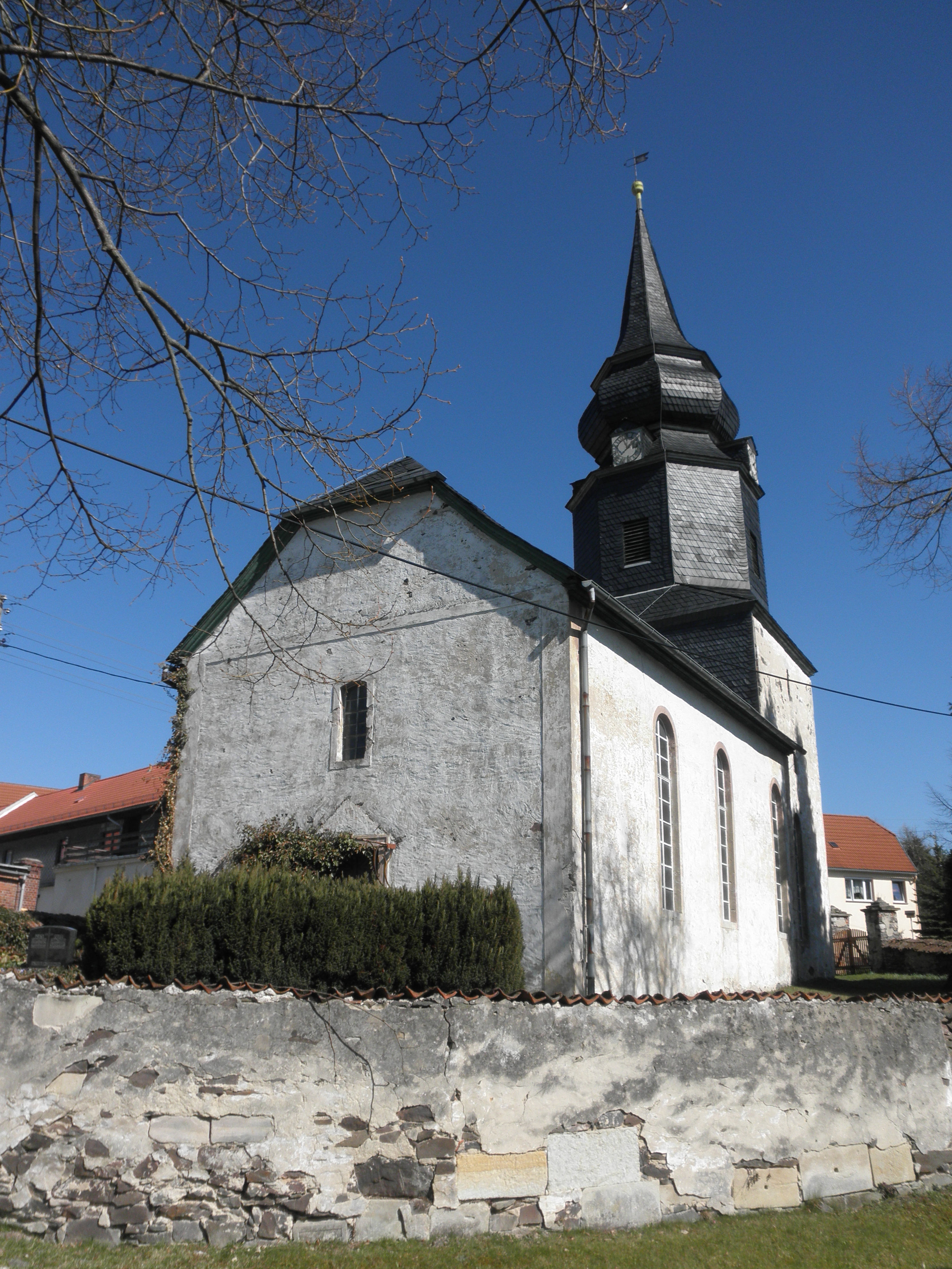 Church in Laskau (Peuschen) in Thuringia